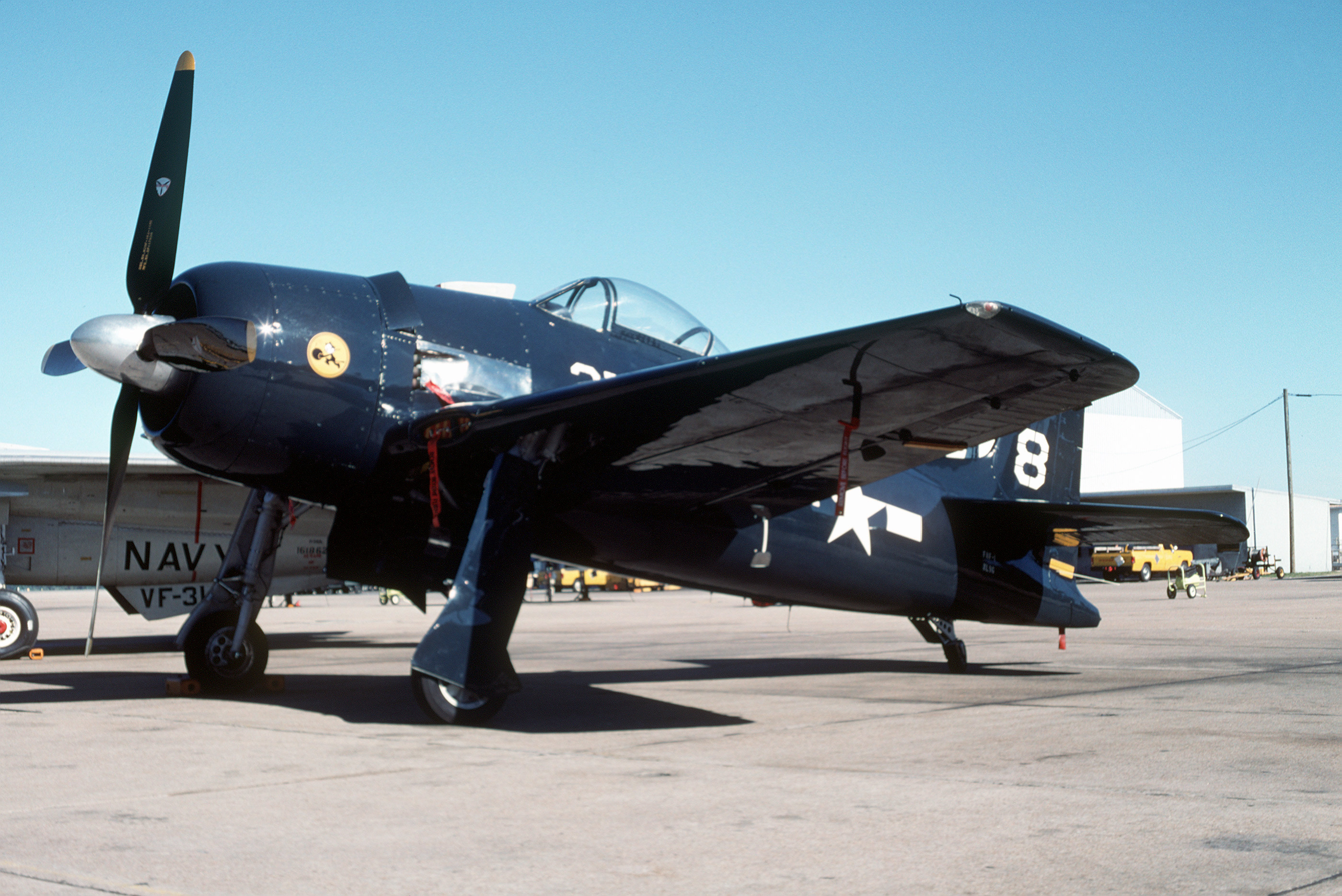 A left side view of the World War II F8F-1 Bearcat aircraft parked on the flight line with other aircraft during a Fighter Squadron 31 (VF-31) reunion.Location: NAVAL AIR STATION, OCEANA, VIRGINIA (VA) UNITED STATES OF AMERICA (USA)